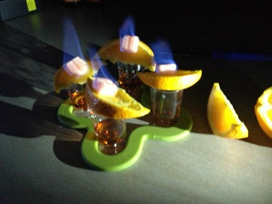 Shot de Stroh, avec sucre caramélisé au Stroh et une demi tranche d'orange